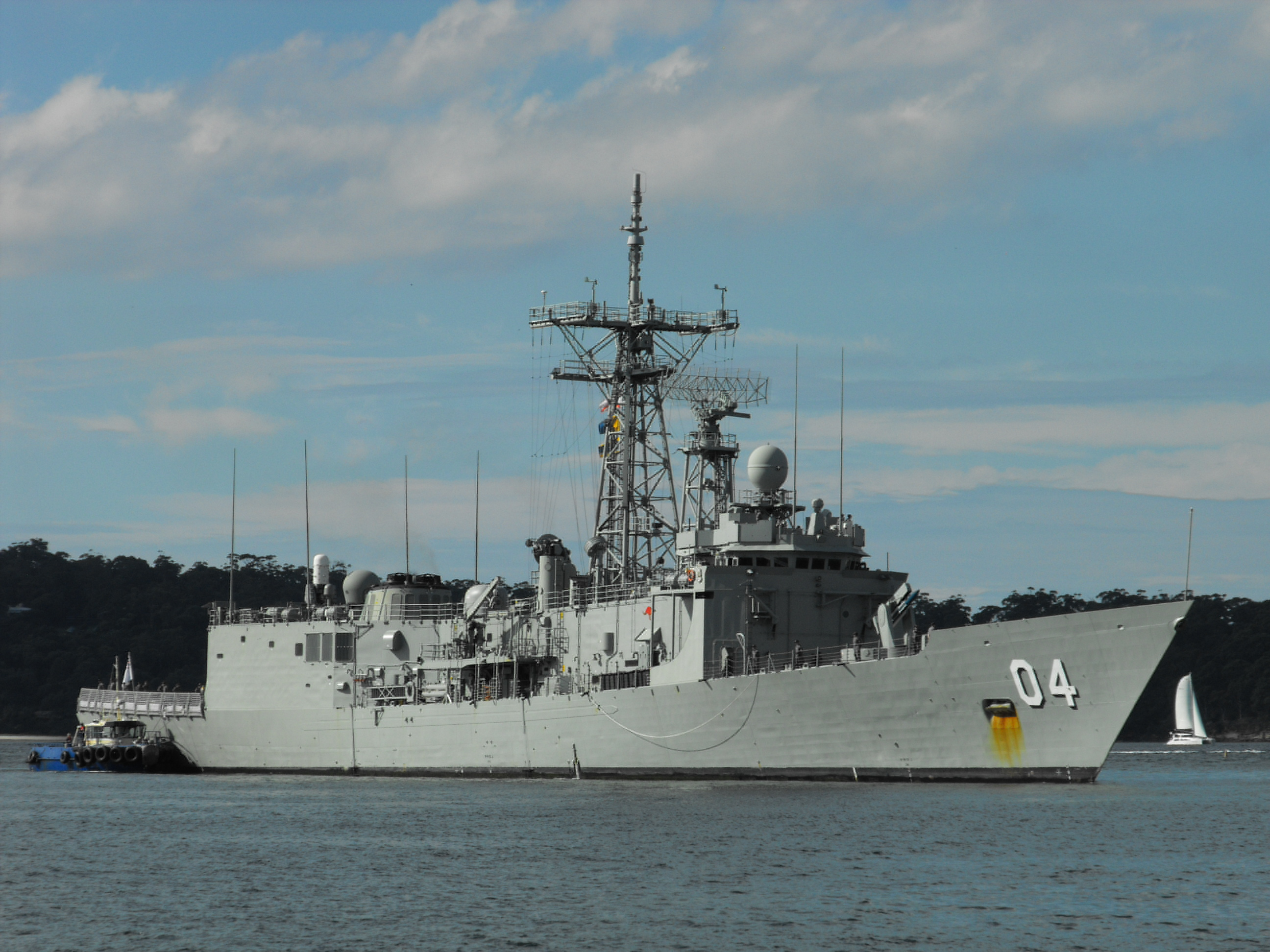 The Royal Australian Navy Adelaide class frigate HMAS Darwin underway in Sydney Harbour. The frigate is returning to Fleet Base East.